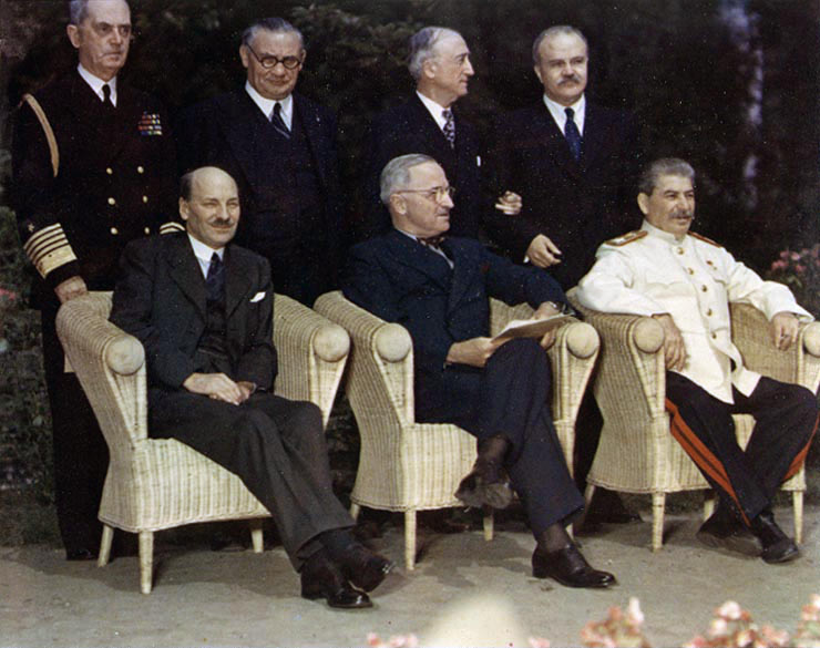 The "Big Three" pose with their principal advisors, at Potsdam, Germany, circa 28 July -- 1 August 1945. The three heads of government are (seated, left to right): British Prime Minister Clement Attlee; U.S. President Harry S. Truman; Soviet Premier Joseph Stalin. Standing behind them are (left to right): Fleet Admiral William D. Leahy, USN, Truman's Chief of Staff; British Foreign Minister Ernest Bevin; U.S. Secretary of State James F. Byrnes; Soviet Foreign Minister Vyacheslav Molotov. Original photo caption: Photo # USA C-1860 "Big Three" & Foreign Ministers at Potsdam, ca. July 1945